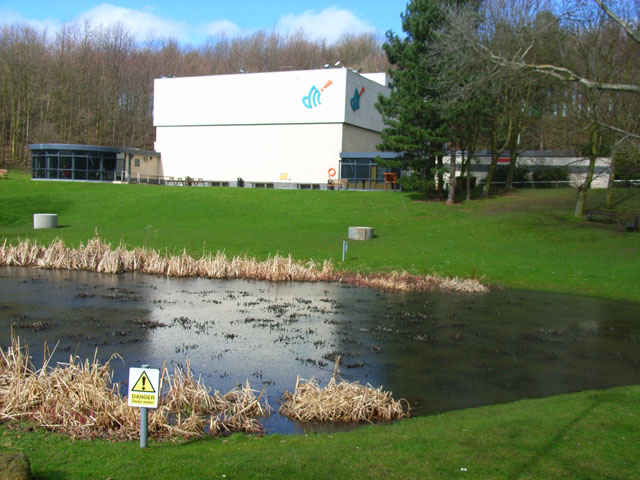 Durham Light Infantry Museum and Arts Centre. A striking building, opened in 1969 by Jennie Lee, on the site of the last working colliery in Durham City